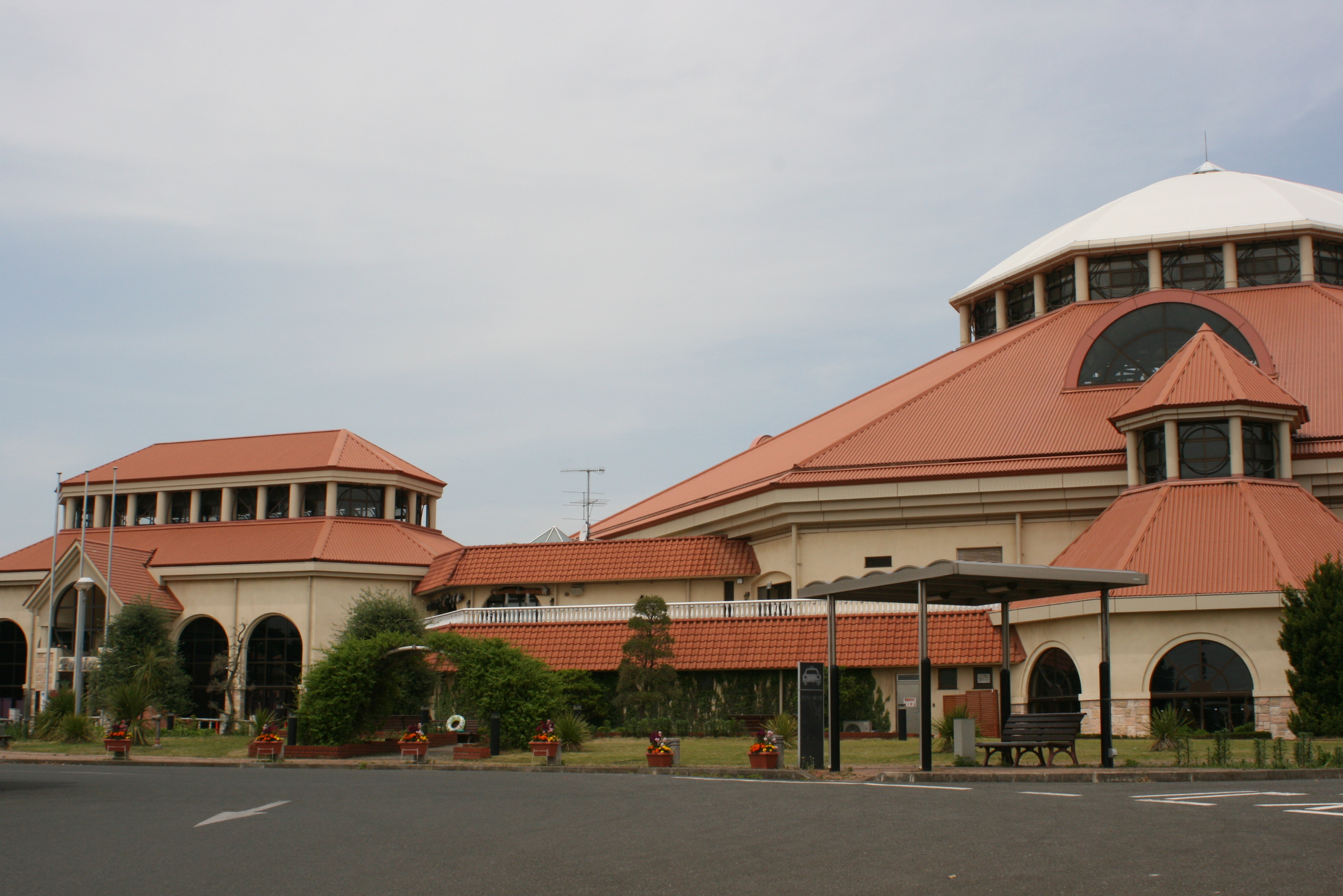 Indoor pool 'Aqua Paradise PATIO' located in Fukaya, Saitama pref. JAPAN